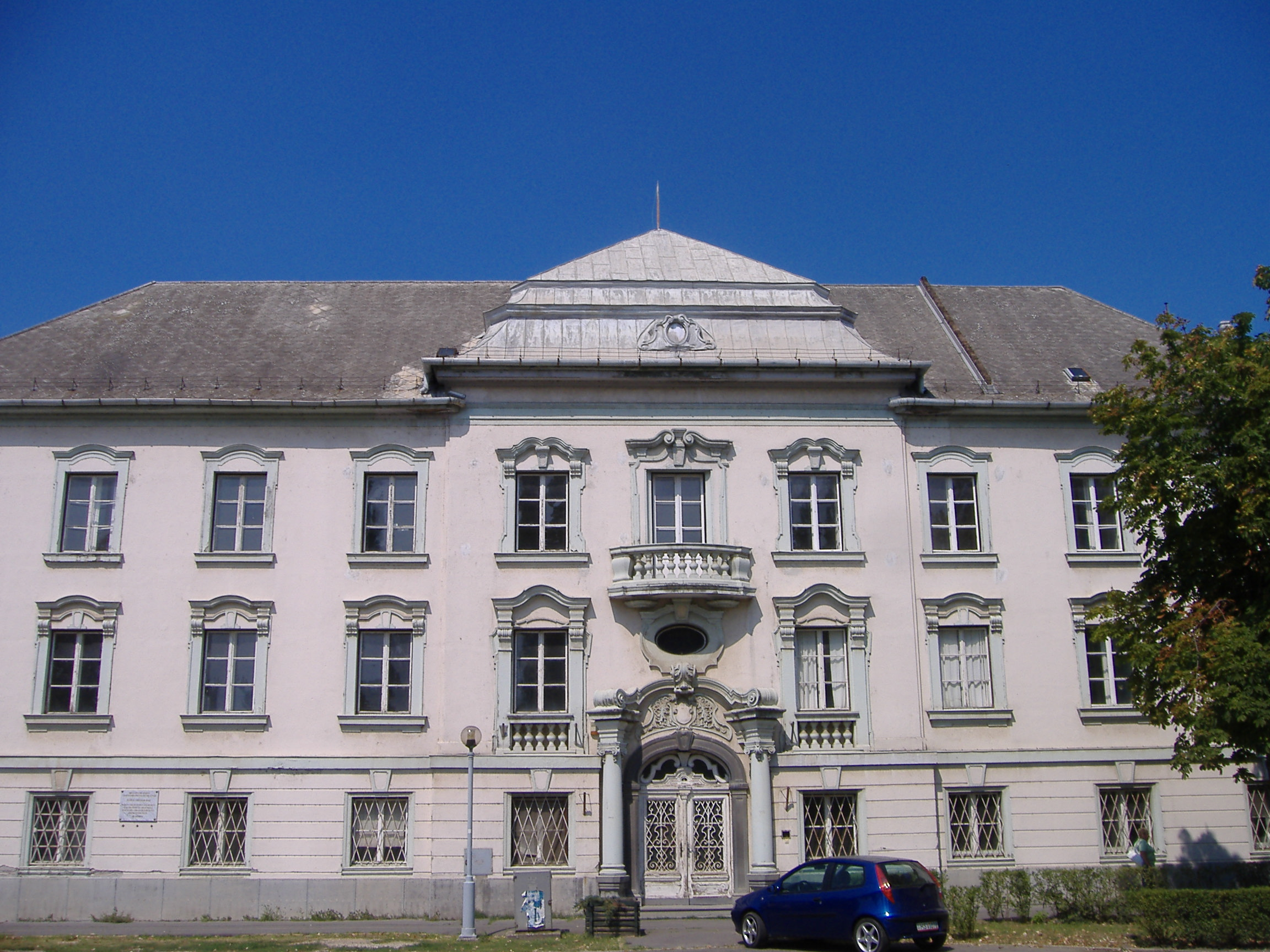 The Old Police Station, built in 1928, in Makó, Hungary.